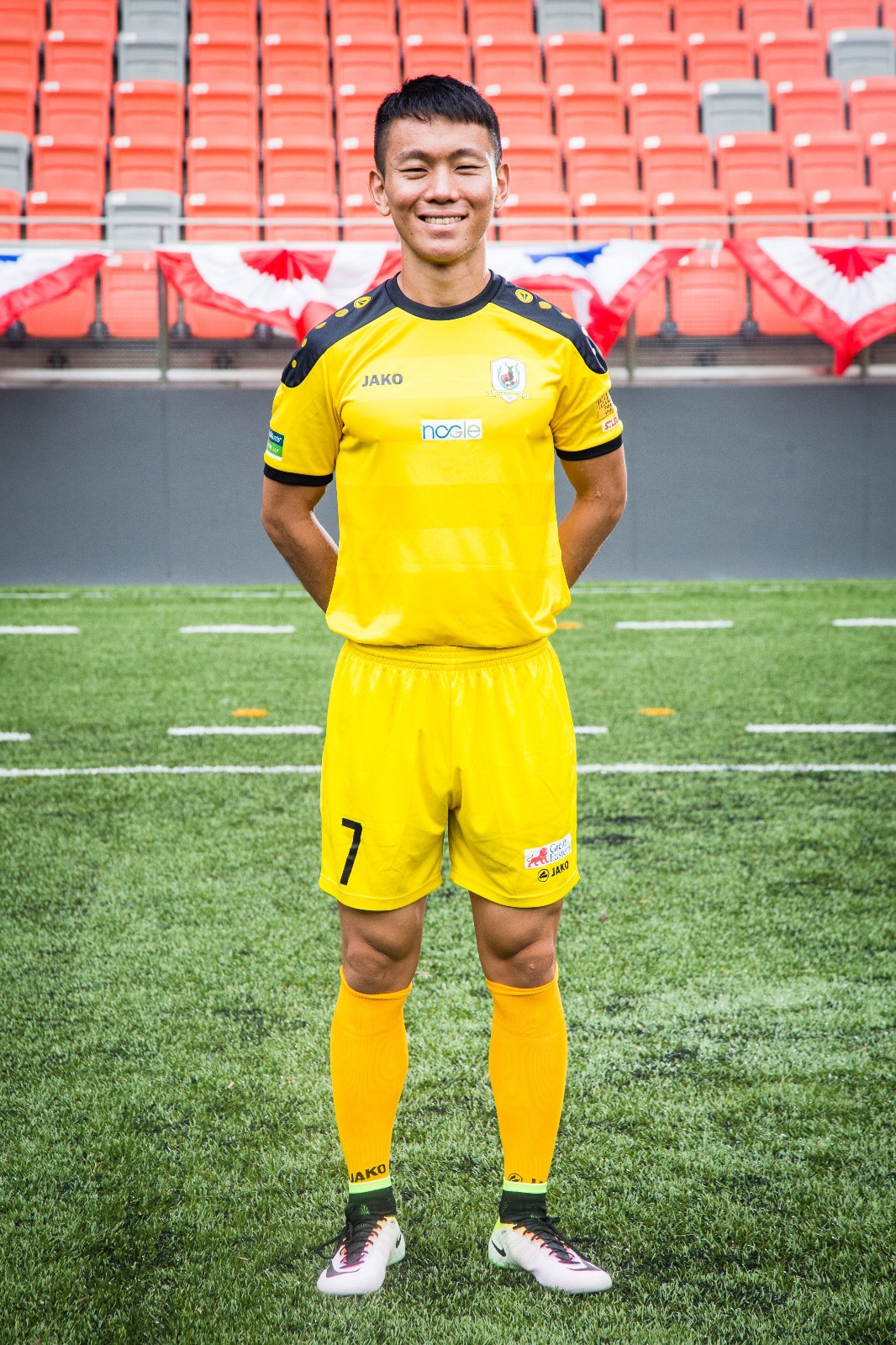 Son Yongchan